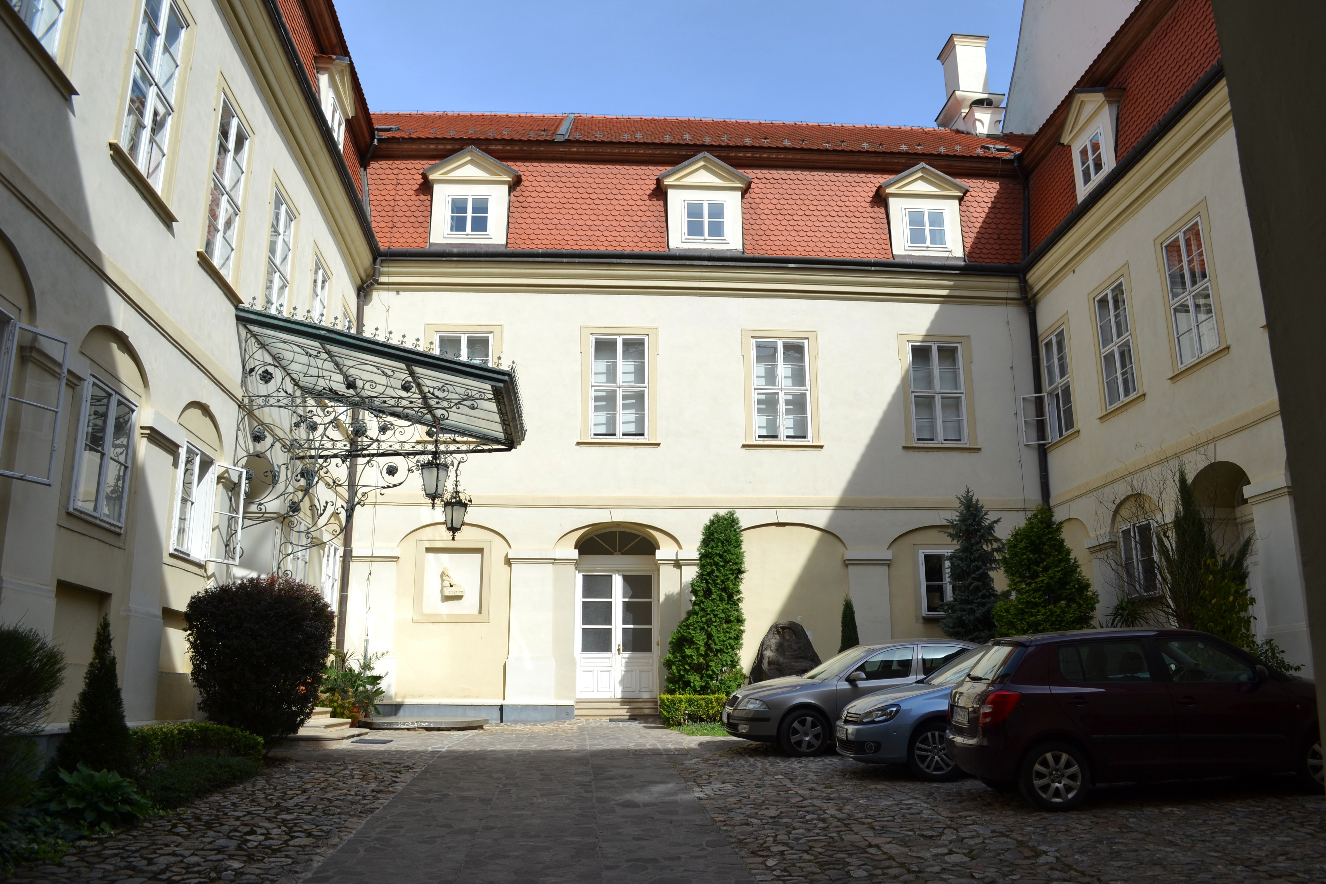 Bishop's Palace courtyard in NitraSlovenčina: Nádvorie biskupského paláca v Nitre